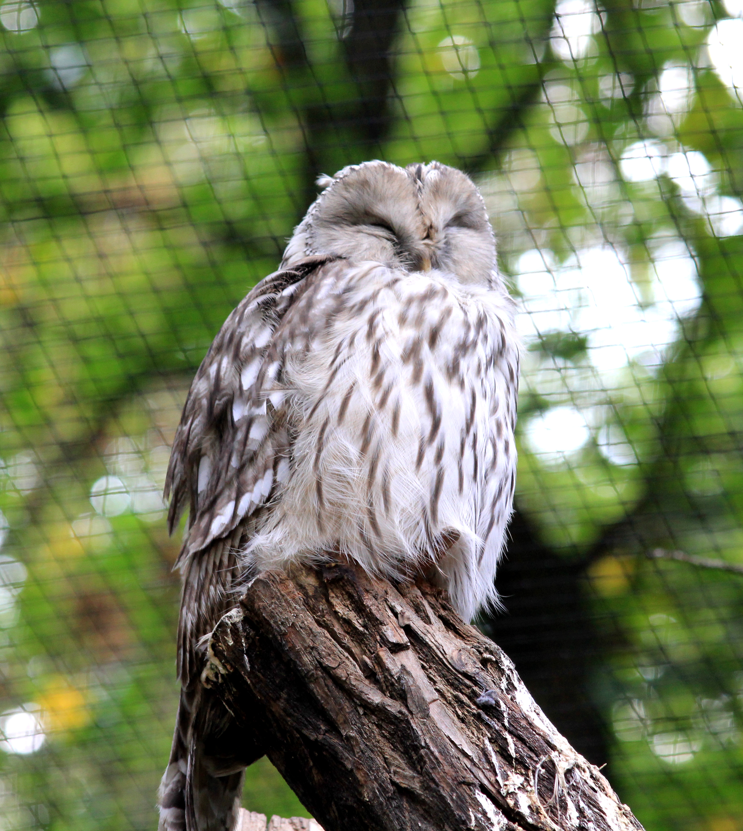 Ural Owl (Strix uralensis) in Prague Zoo, Czech Republic